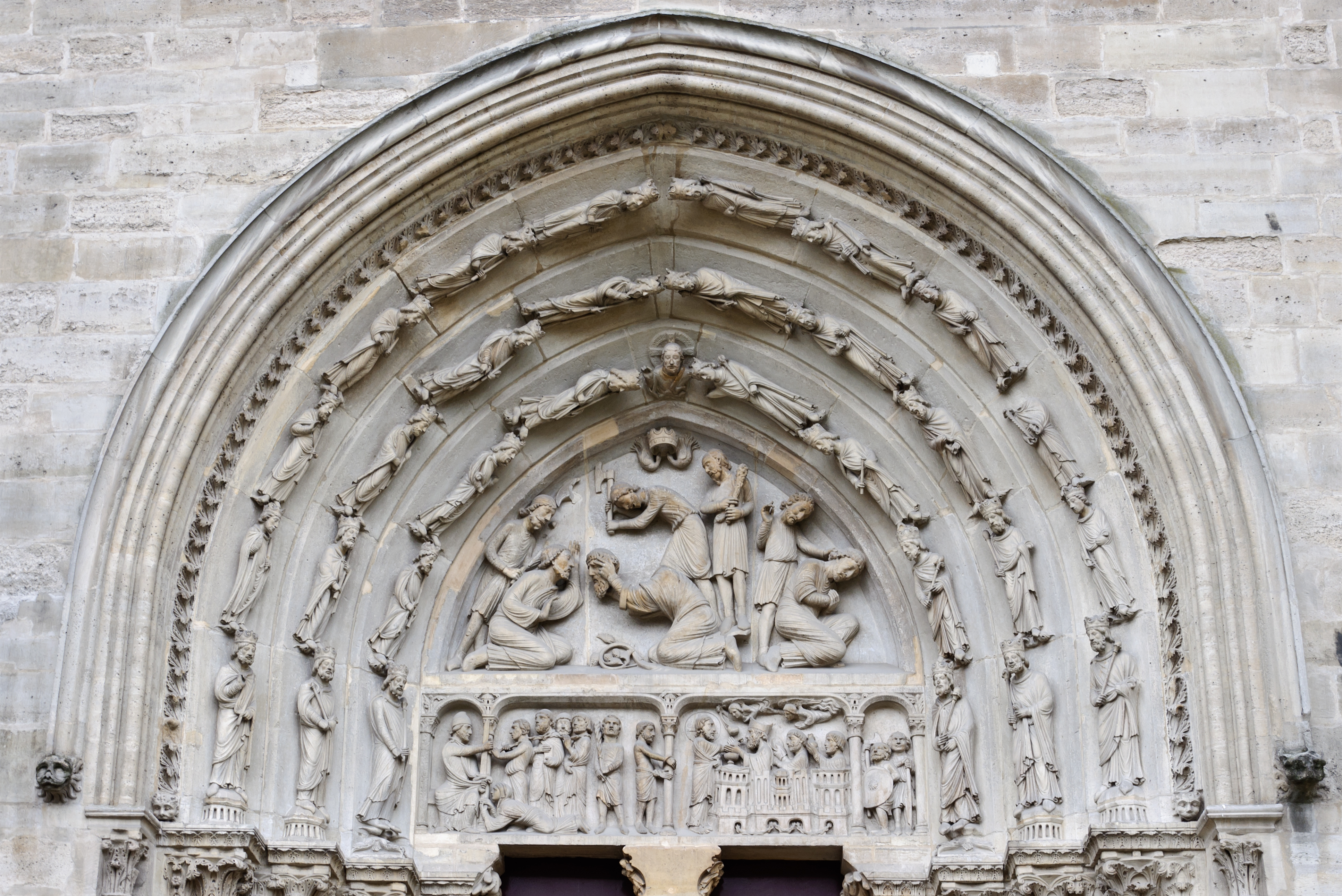 Basilica of St Denis, France : portal of the north transept, tympanum and archivolt. The tympanum depicts the beheading of Saint Denis.